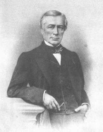 Photography of French writer Xavier Marmier (1808-1892)